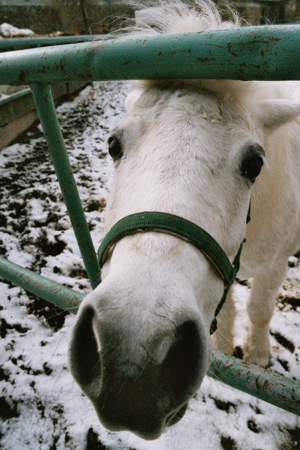 White Shetlandpony